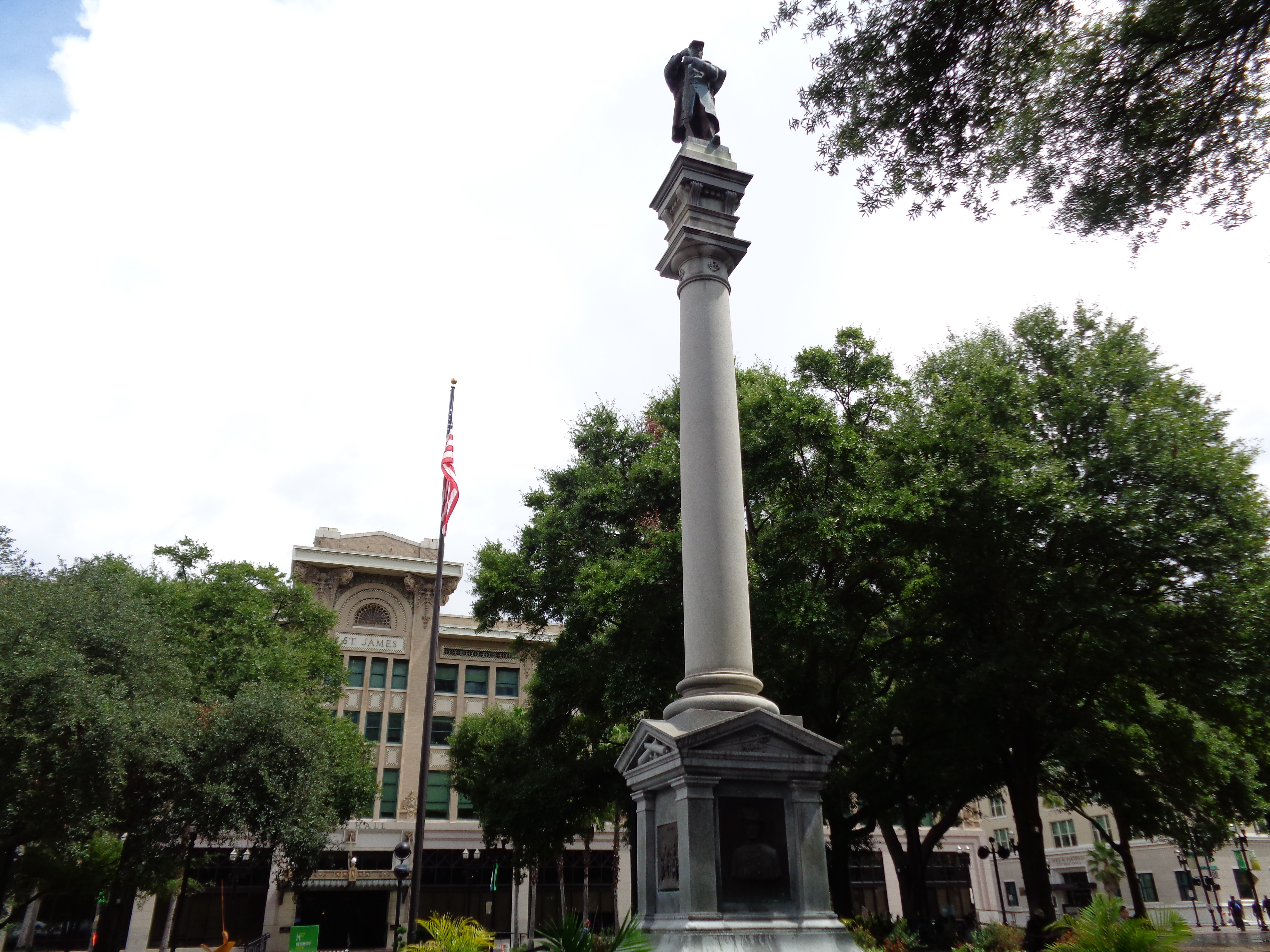 Confederate Monument, Hemming Park, Jacksonville, Florida - On June 9, 2020 the Confederate memorial was taken down after 122 years in the center of the park.